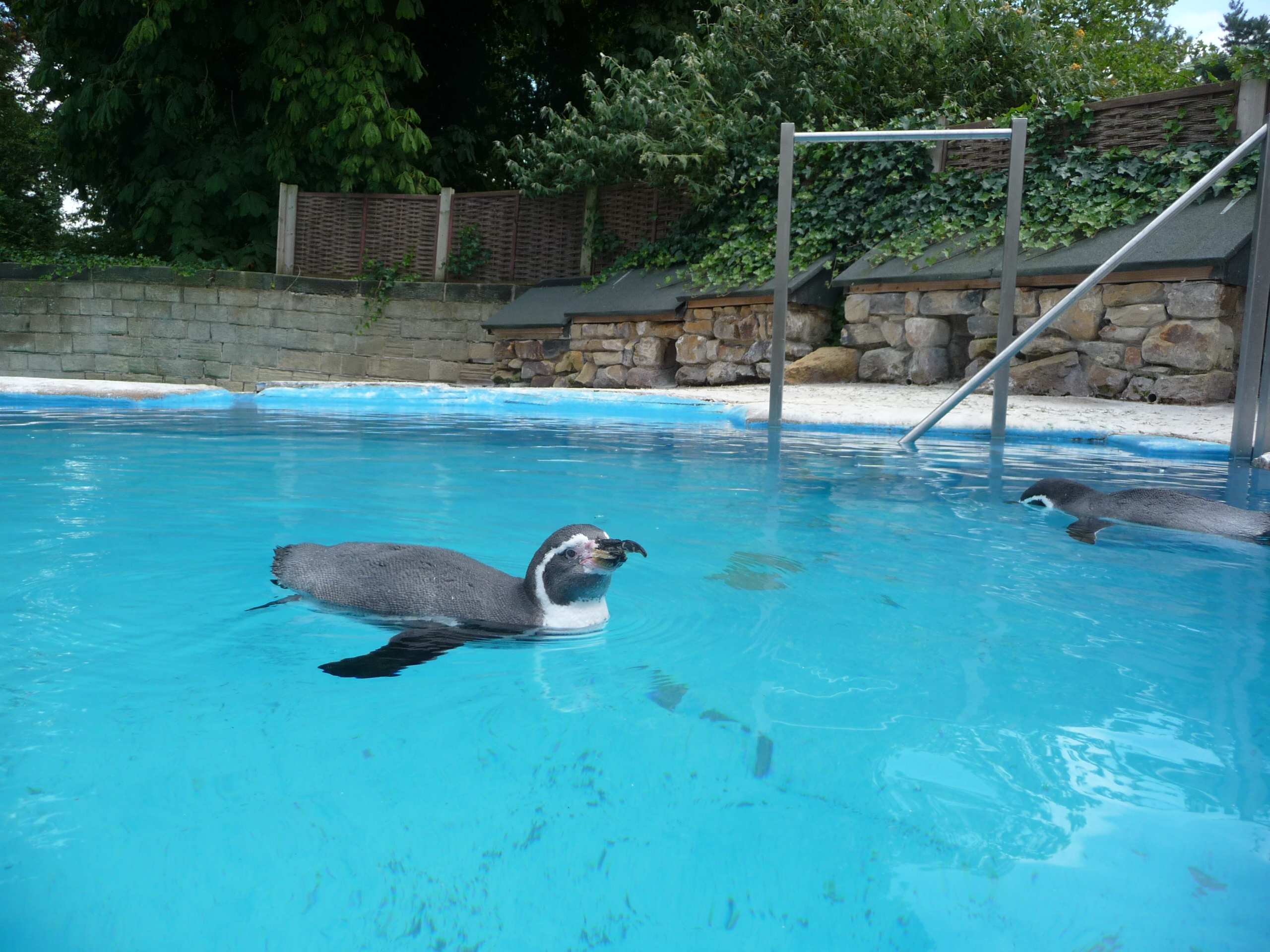 Penguin at Harewood House in Harewood, West Yorkshire, United Kingdom